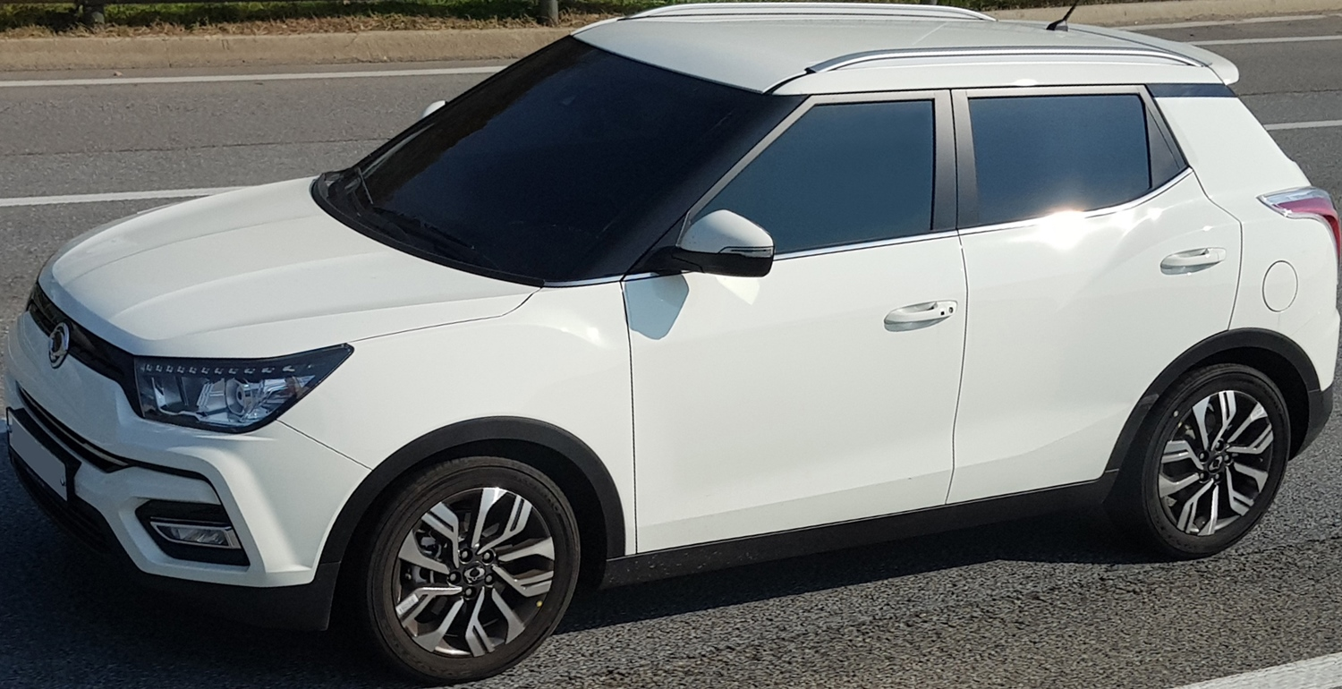 SsangYong Tivoli